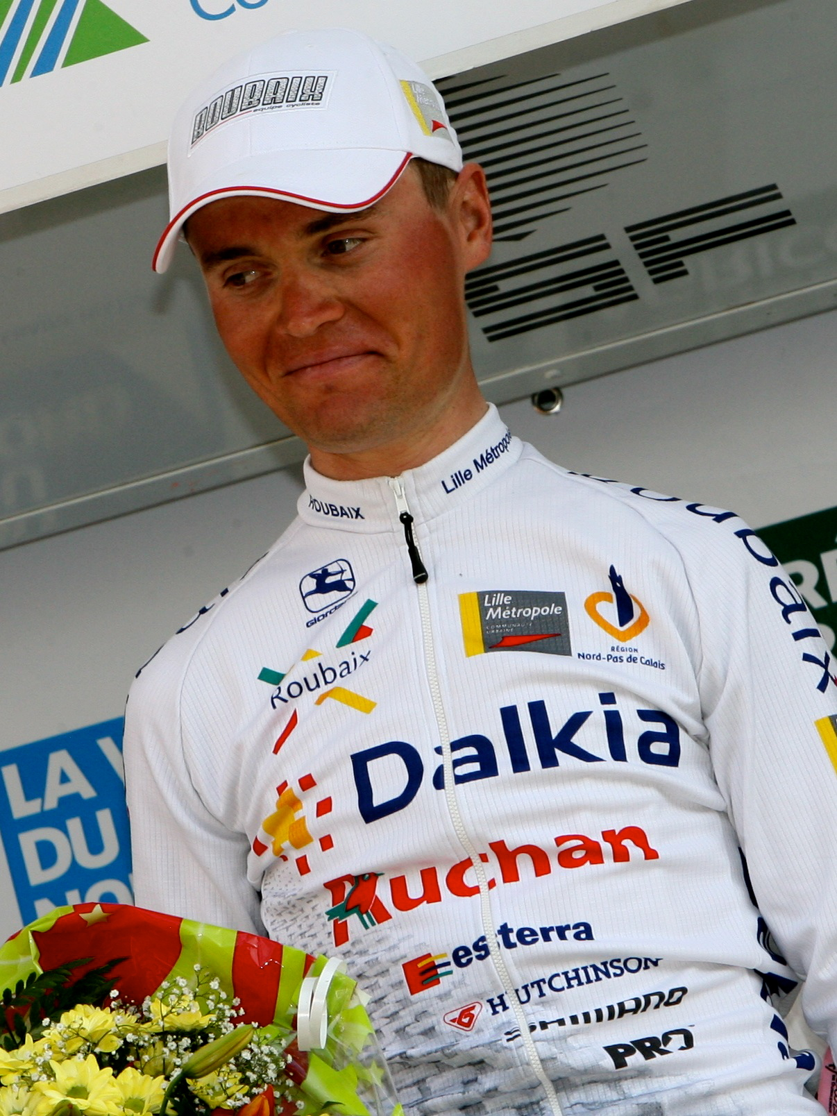 Paul 4 jours de Dunkerque